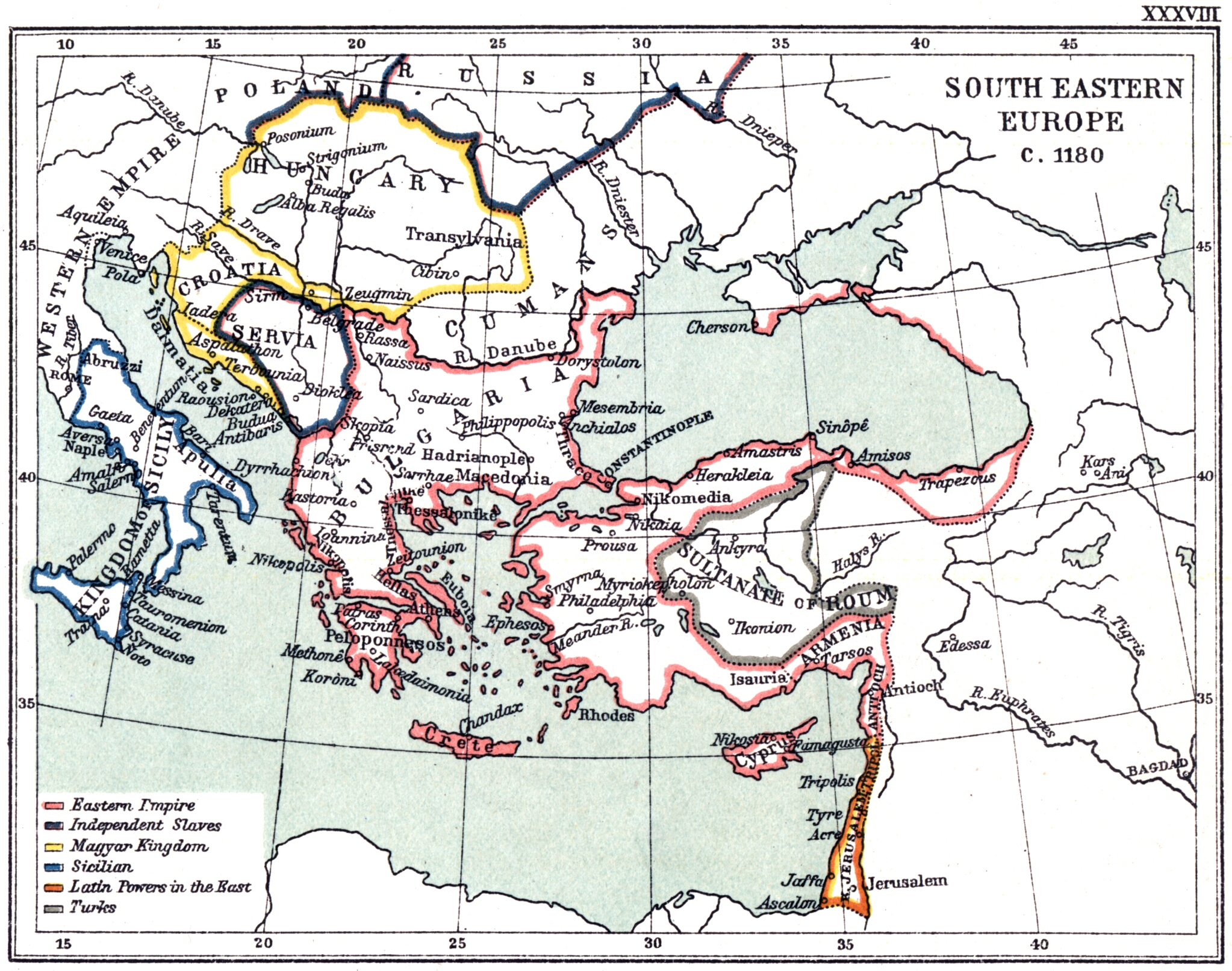 XXXVIII SE Europe c. 1180